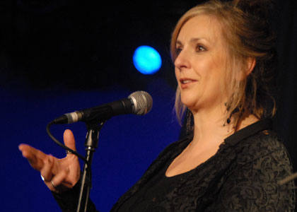 Moya Brennan in concert